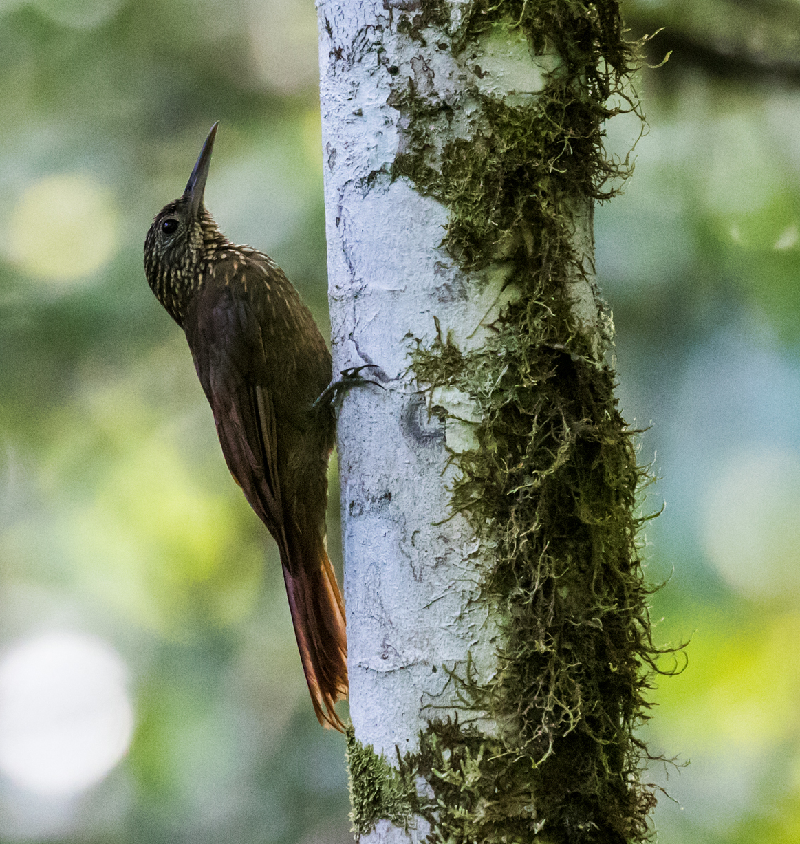 Tschudi's Woodcreeper from Maycu Reserve, Zamora-Chinchipe, Ecuador.